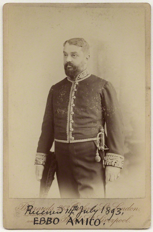 Portrait of Everard Green (1844–1926), English officer of arms.